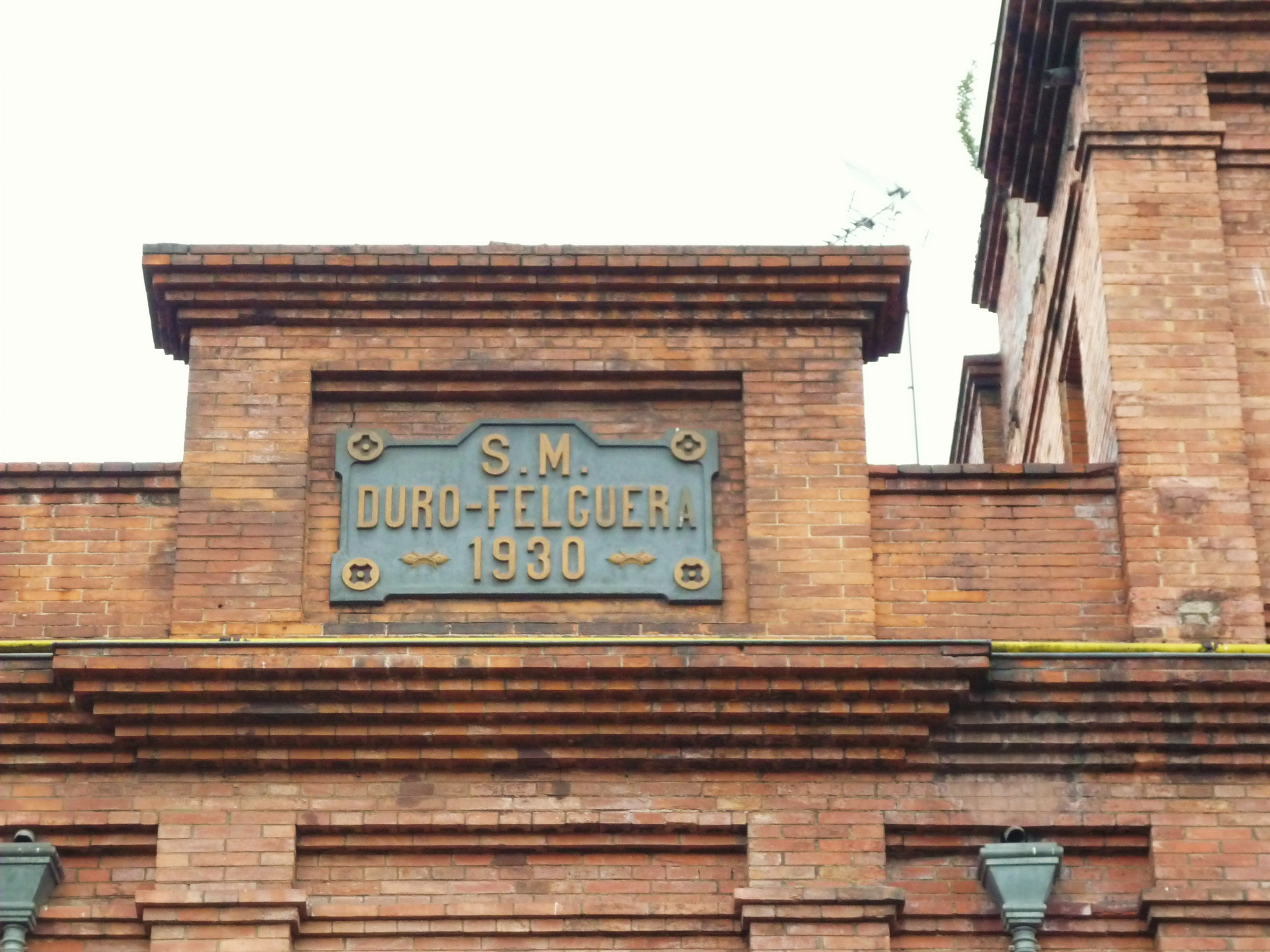 Detail of an old factory building in La Felguera (Spain)